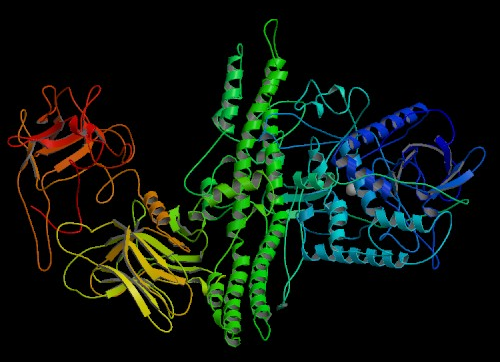 Crystal structure of Botulinum Neurotoxin Serotype A.